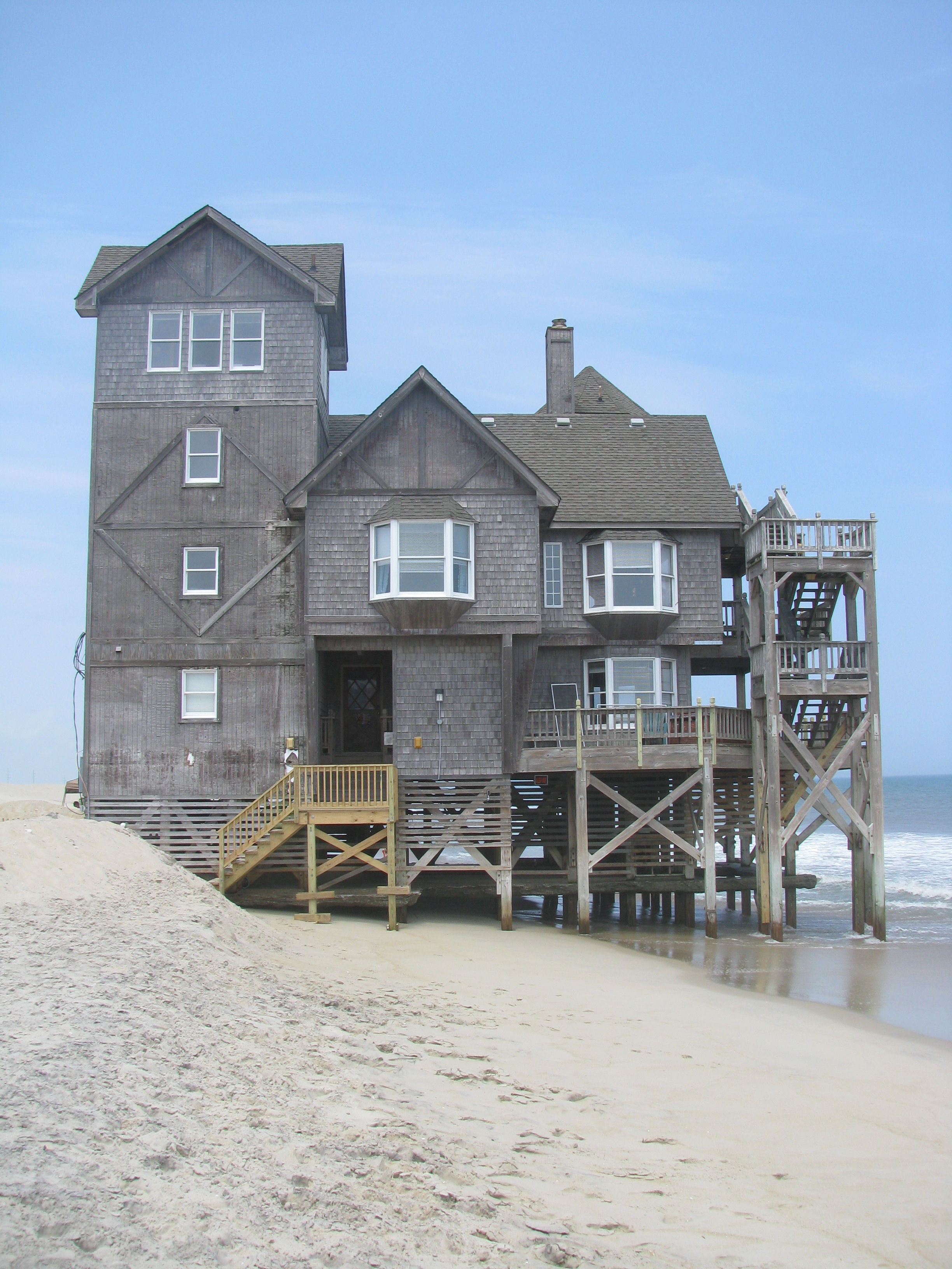 The rental house Serendipity which was used in the 2008 film Nights in Rodanthe located in Rodanthe, North Carolina. This is the south facing side of the house.